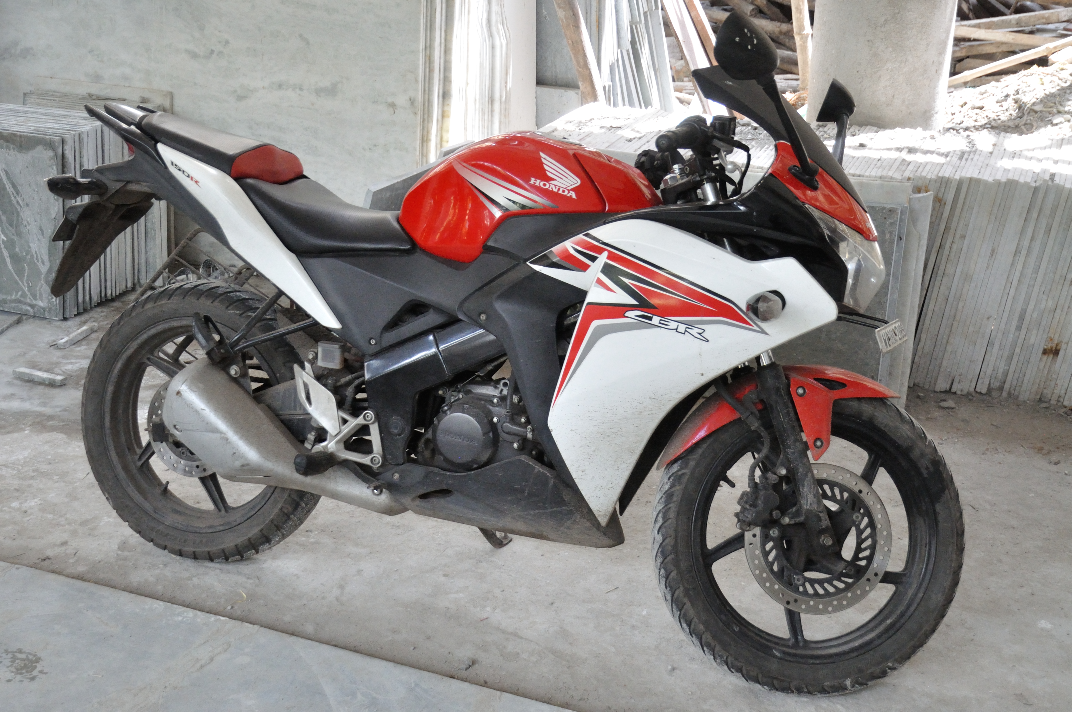 Photographed in Kolkata.